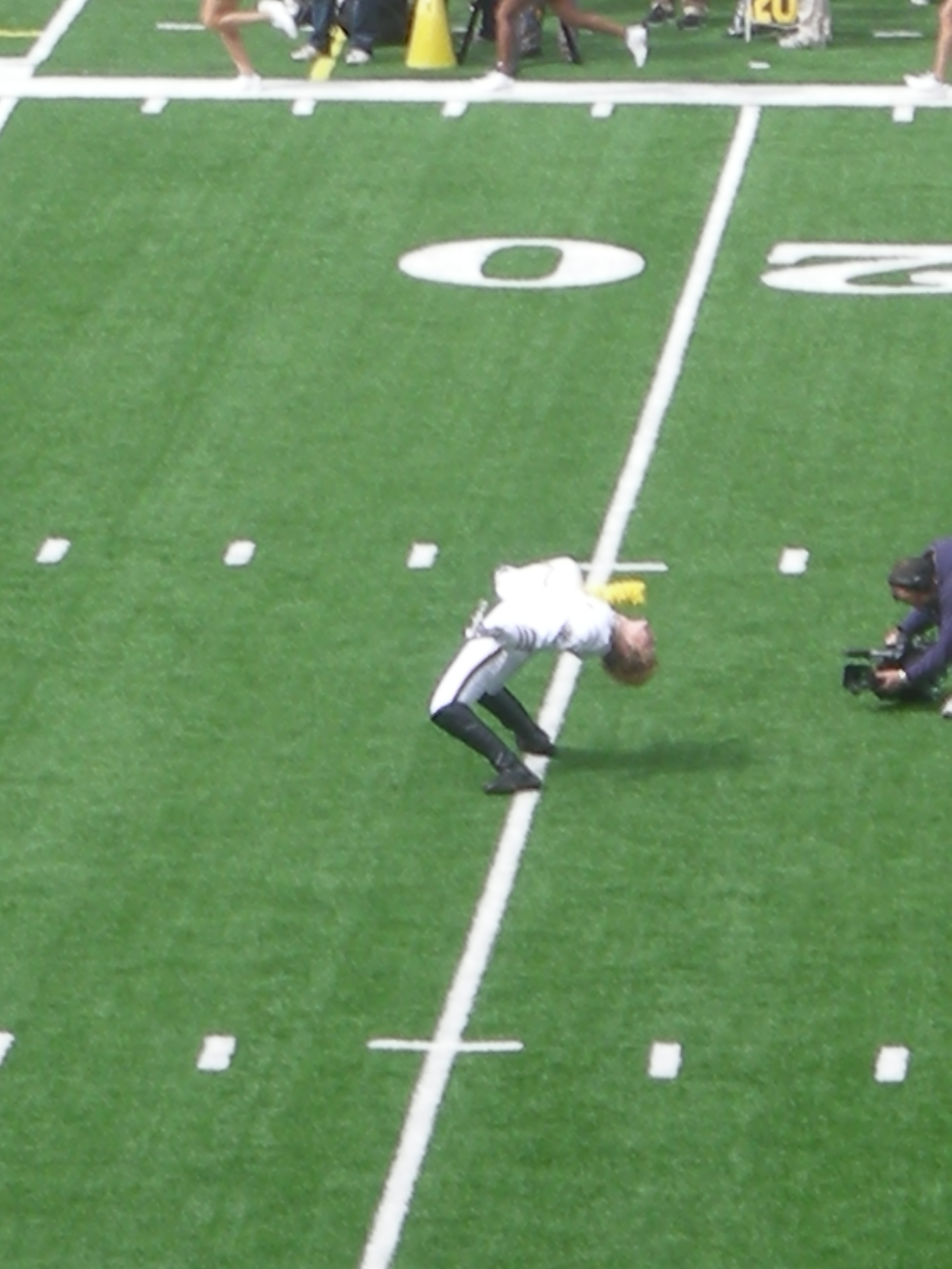 The Michigan Marching Band drum major before the Eastern Michigan Eagles vs. Michigan Wolverines football game at Michigan Stadium in Ann Arbor, Michigan (United States). Michigan won 31–3.